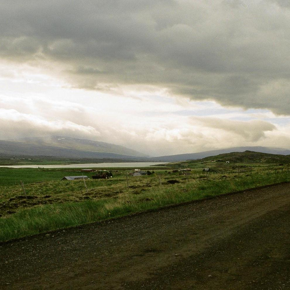 The river Lagarfljót in the northeast of Iceland.